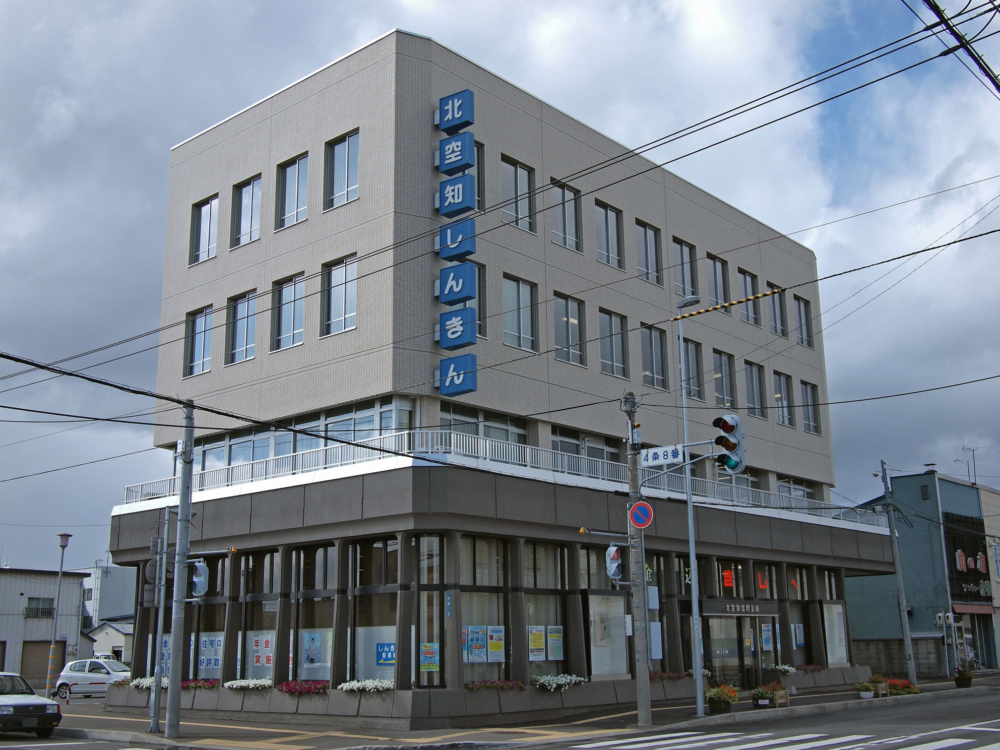 Kitashorachi shinkin bank, Fukagawa, Hokkaido, Japan